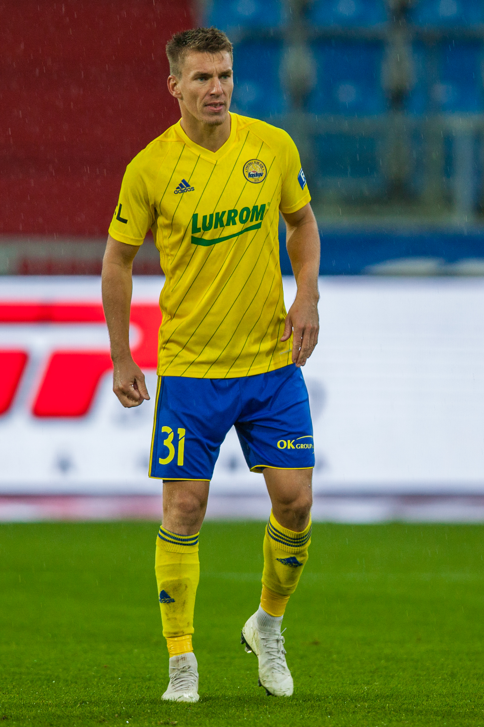 Zdeněk Folprecht in a Czech First League (Fortuna:Liga) match between FC Baník Ostrava and FC Fastav Zlín (4:0), 5 October 2019, Městský stadion Ostrava, Ostrava-Vítkovice, Ostrava-City District, Moravian-Silesian Region, Czechia Personality rights warningAlthough this work is freely licensed or in the public domain, the person(s) shown may have rights that legally restrict certain re-uses unless those depicted consent to such uses. In these cases, a model release or other evidence of consent could protect you from infringement claims.